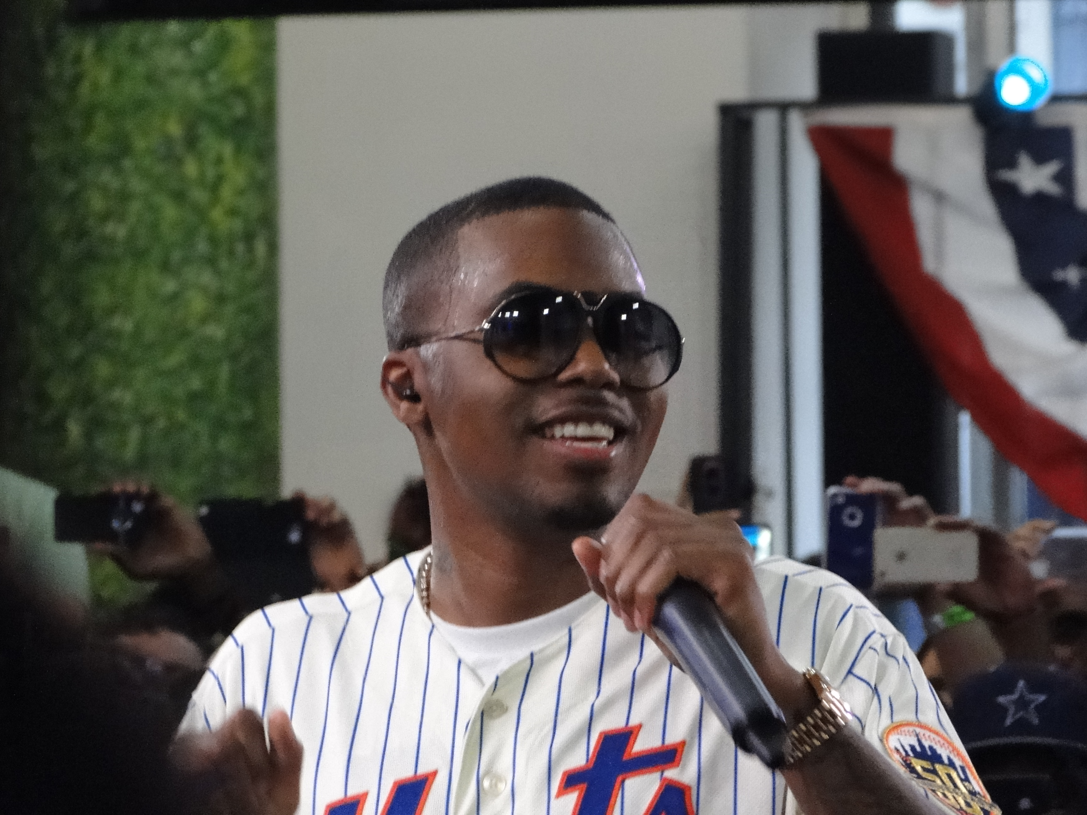 Nas performing